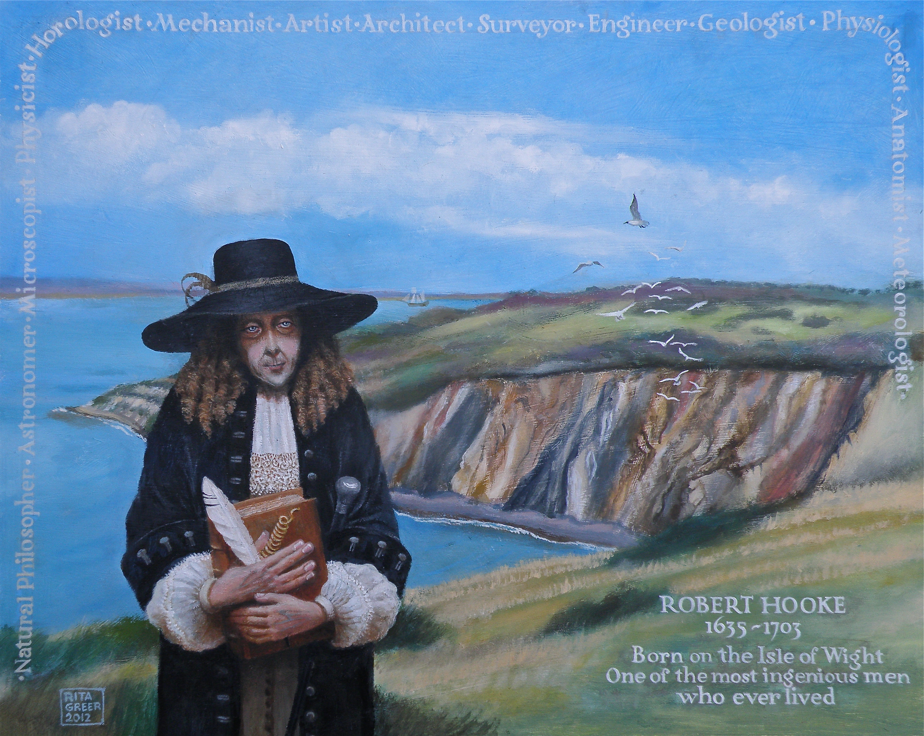 Memorial portrait of Robert Hooke at Alum Bay, Isle of Wight, England, for Carisbrooke Museum.